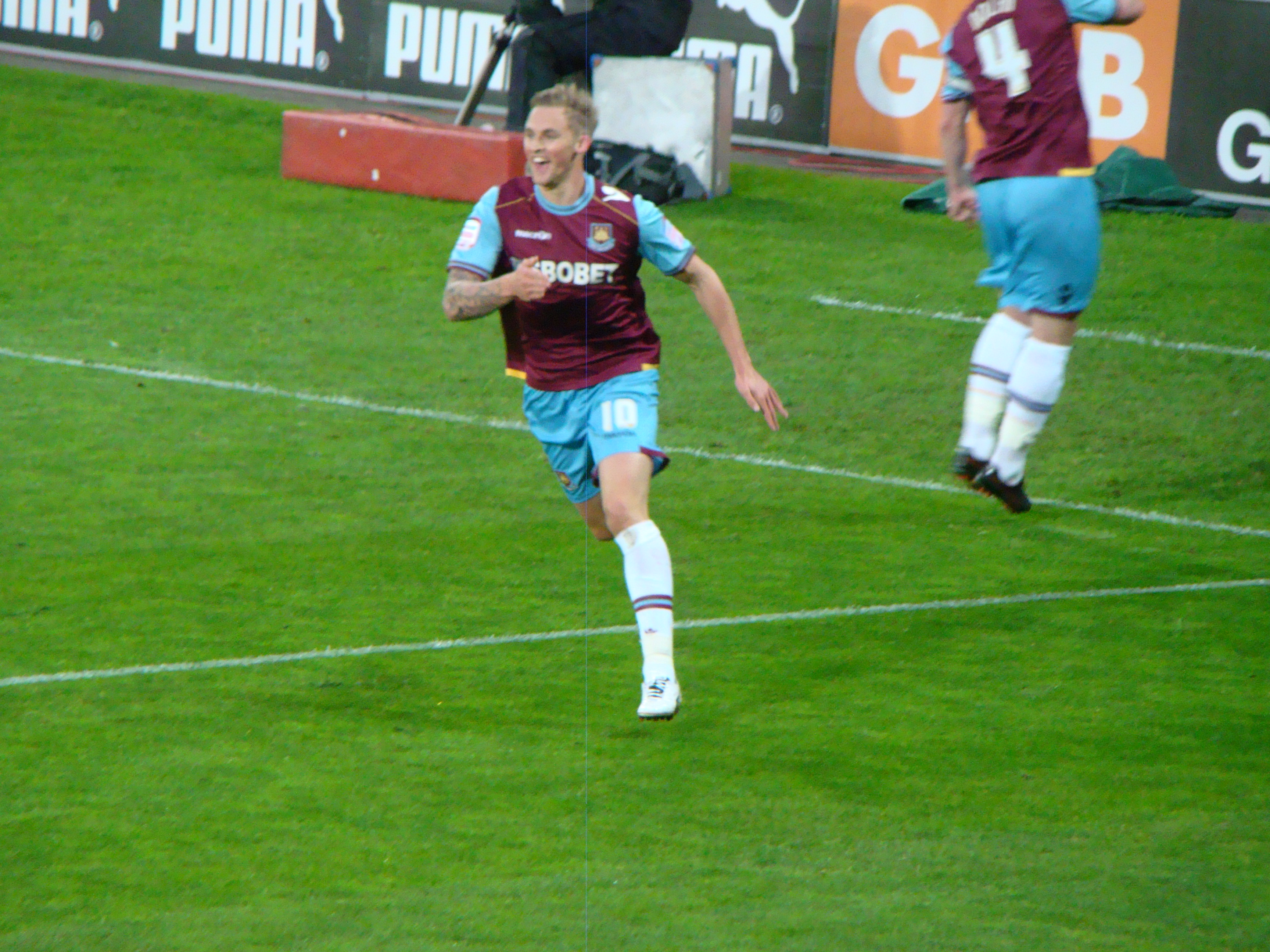 Jack Collison playing for West Ham